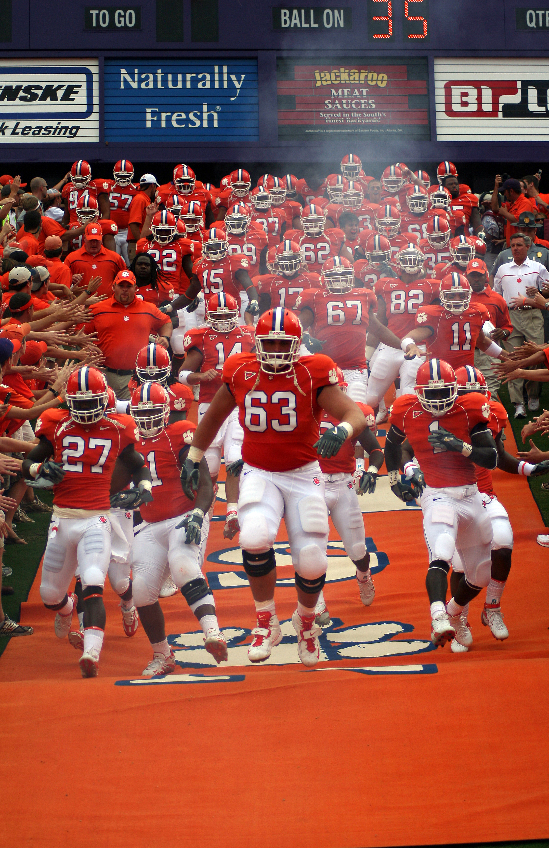 Clemson Tigers football team runs down the field at the start of the game on September 24, 2006.